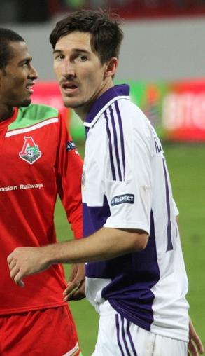 Sacha Kljestan with R.S.C. Anderlecht.